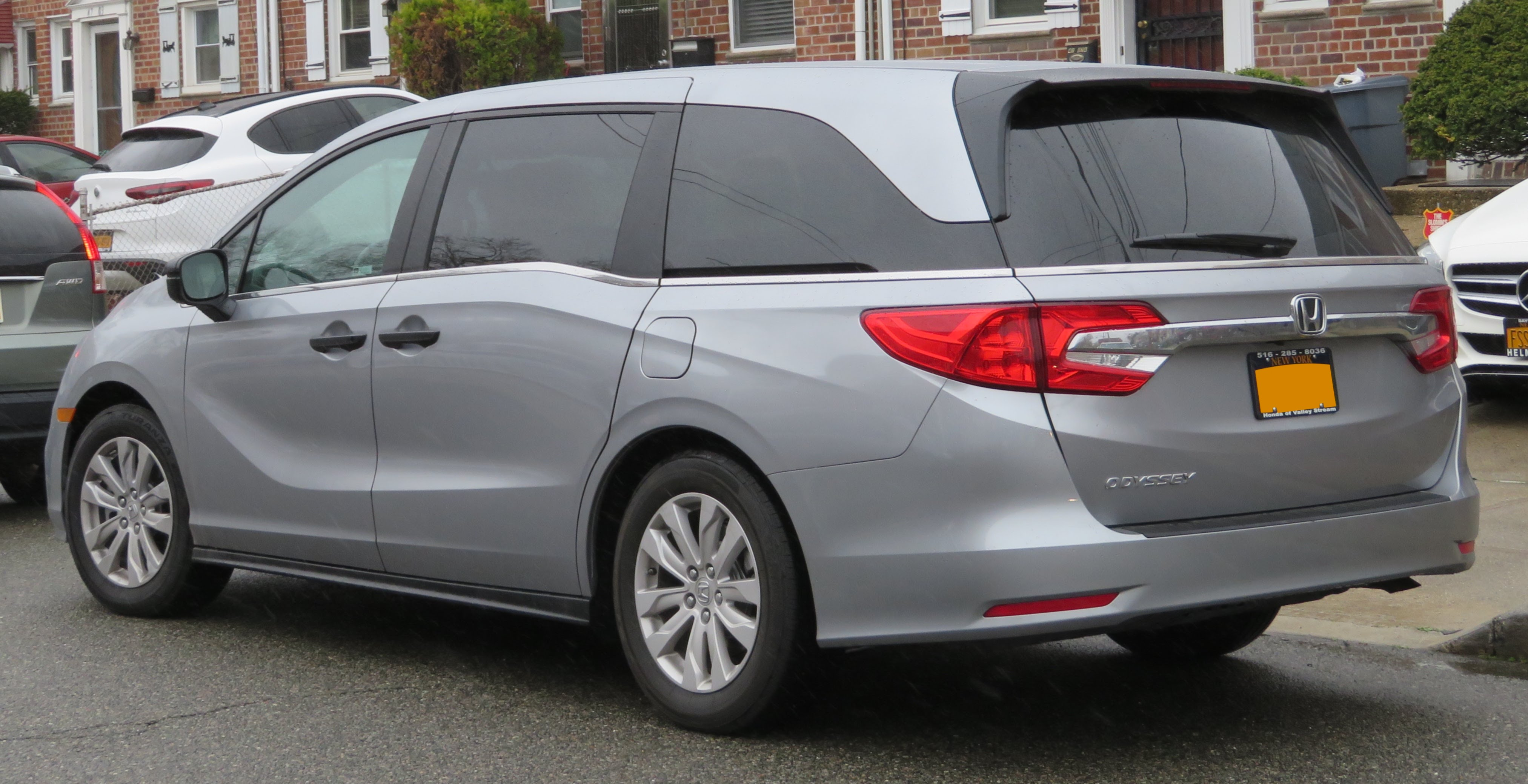 In Queens, New York